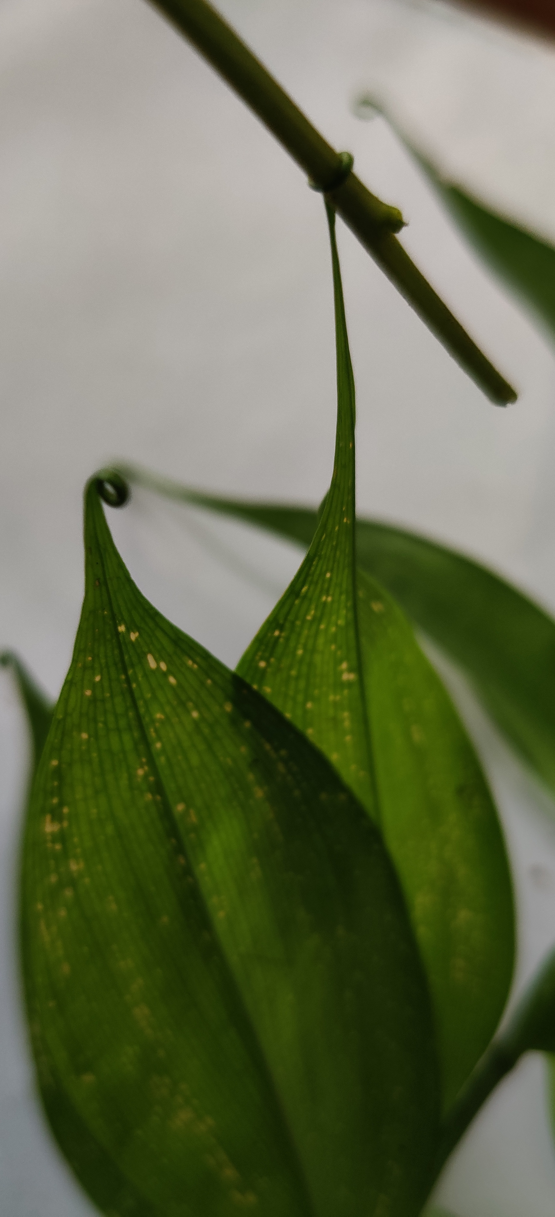 Leaf tendrils: In weak-stemmed plants, leaf or a part of leaf gets modified into tendrils i.e., a green coiled threadlike structure which helps in climbing around the support. Gloriosa or Glory Lily has leaf tip modified into tendrils. It is also a type of leaf tendrils